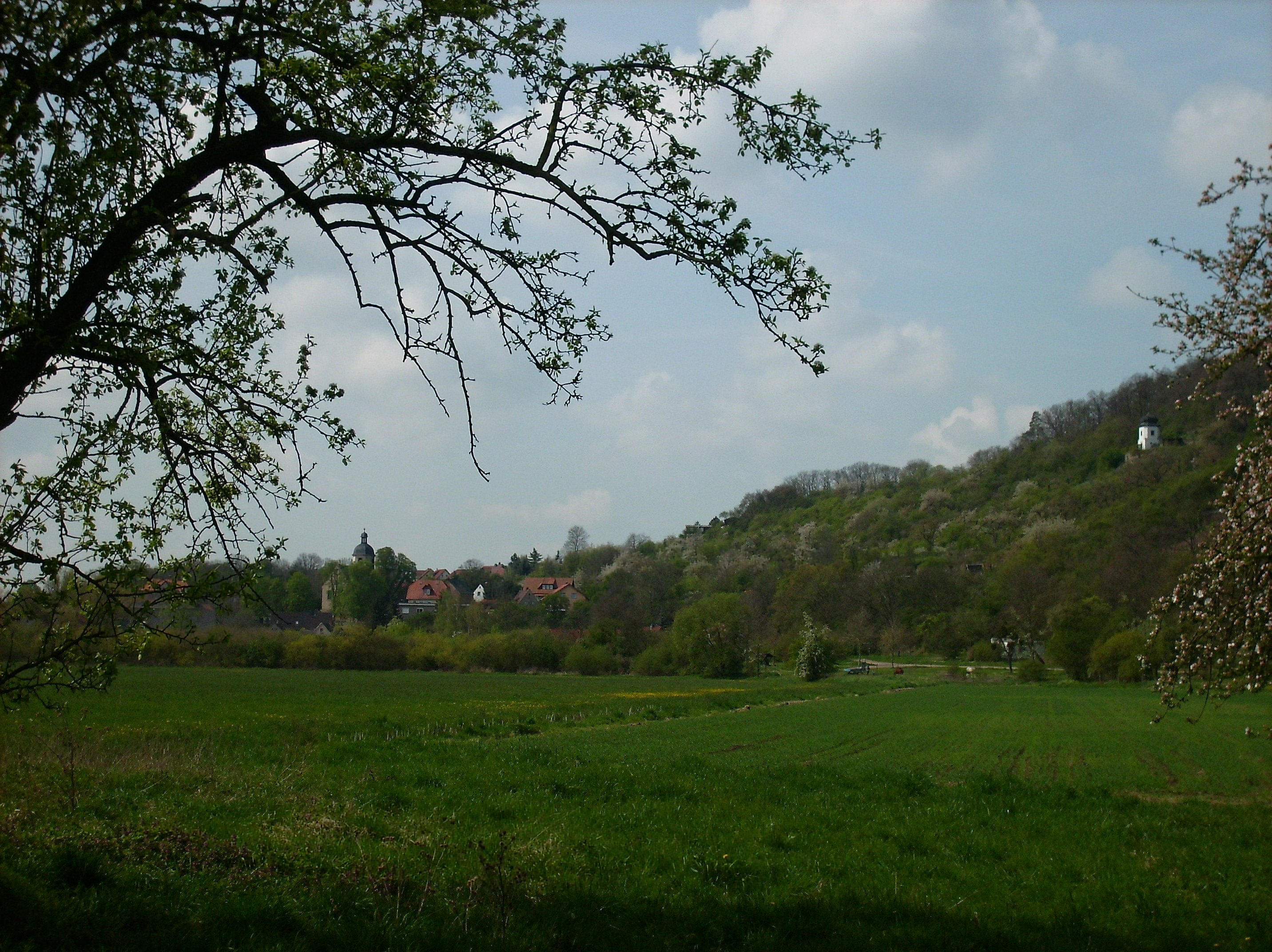 Mead of the Saale river near Eulau (Naumburg/Saale, district of Burgenlandkreis, Saxony-Anhalt)